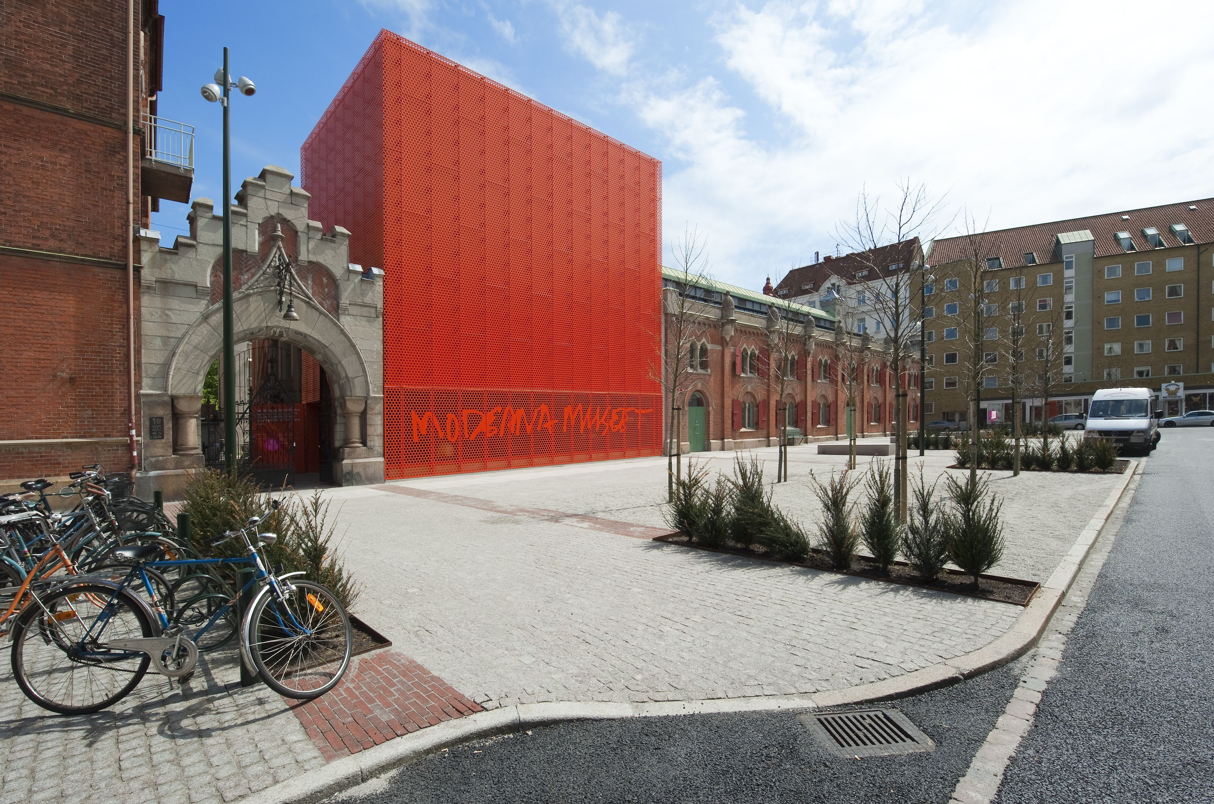 Moderna Museet Malmö opened in 2009 in a power station from 1901 with a contemporary extension by Tham & Videgård Hansson Arkitekter.